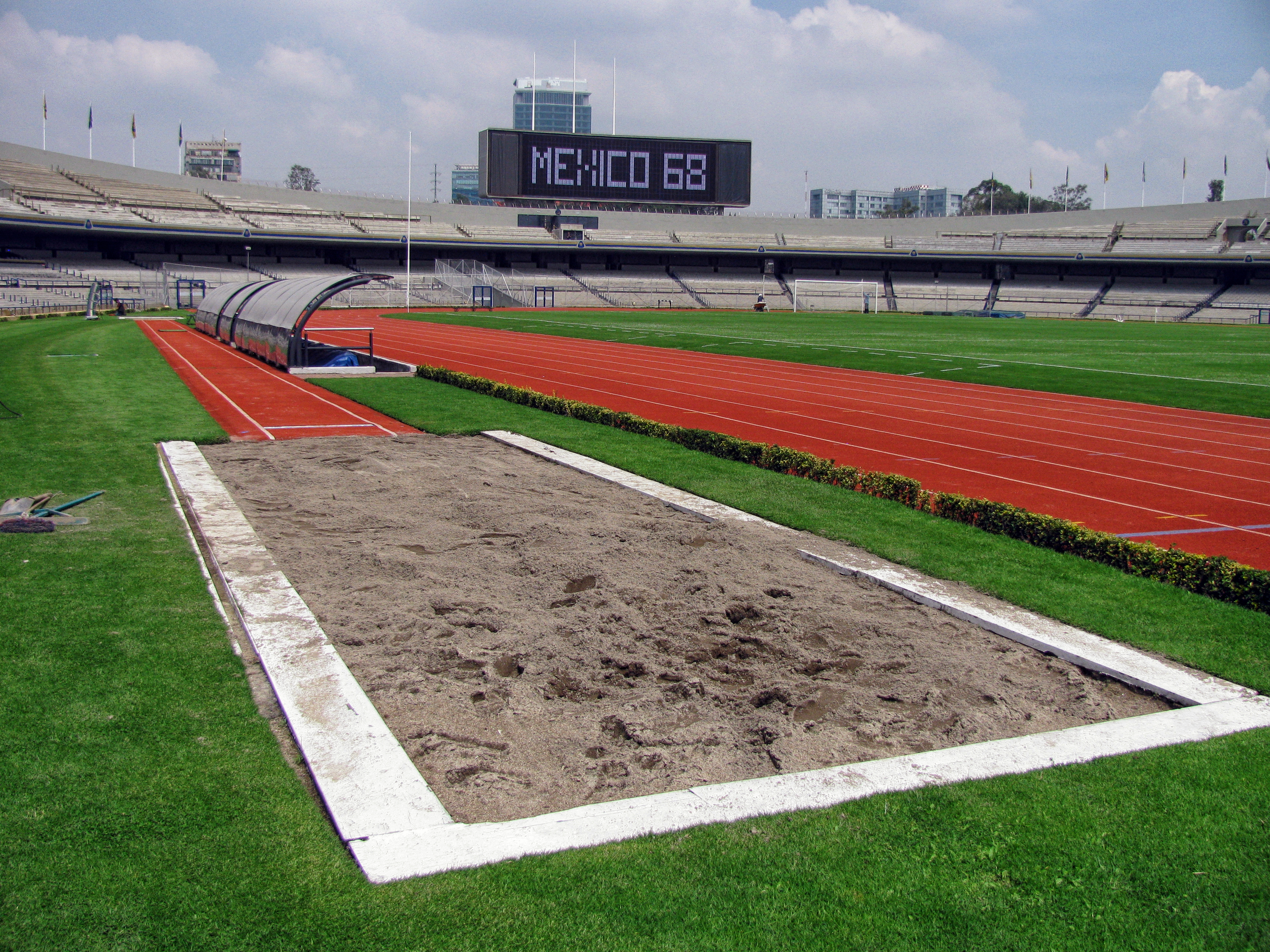 Event to commemorate the 50th anniversary of the 1968 Olympic Games in Mexico. University Olympic Stadium, Mexico City, Mexico.